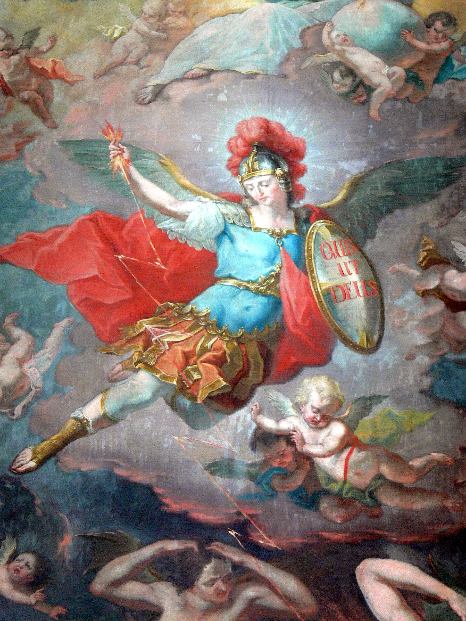 Saint Michael parish church in Untergriesbach. Baroque high altar: Saint Michael and the fall of angels - painting by Johann Georg Unruhe ( 1793 ).